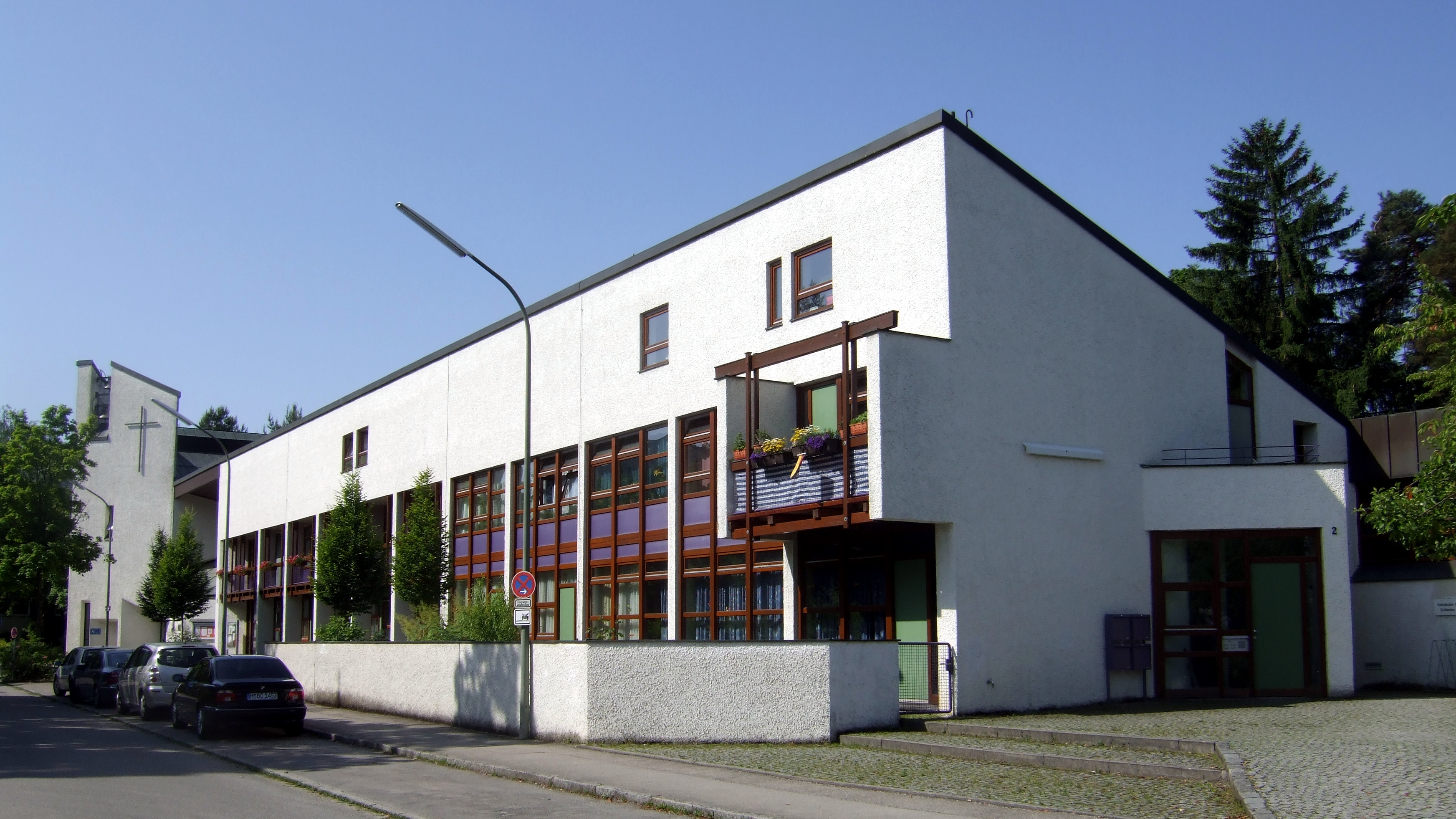 Ottobrunn: St. Albertus Magnus church (parish centre)